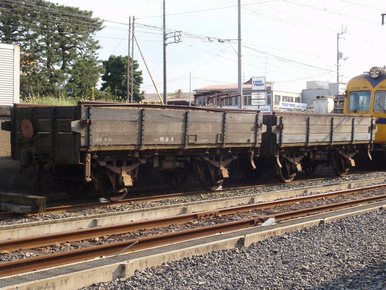 Open railway wagons by Ichibata Electric Railway(BATADEN).